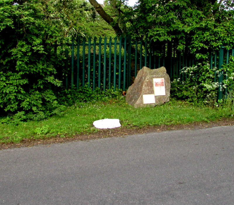 An information board on the boulder records that the railway came to Patchway in 1863 as a single track line as far as Pilning. Patchway Station was just here. There was a weighbridge by the station to check that wagons were not overladen. The tall houses in Station Road were built for railway officials such as the station master. After the Severn Tunnel opened in 1886, so many trains brought coal from South Wales that a second track had to be built. The new track was at a different level LinkExternal link so the station had to be moved further south to its present site, about 750 metres away (and further away from Patchway), where the lines are at the same level.